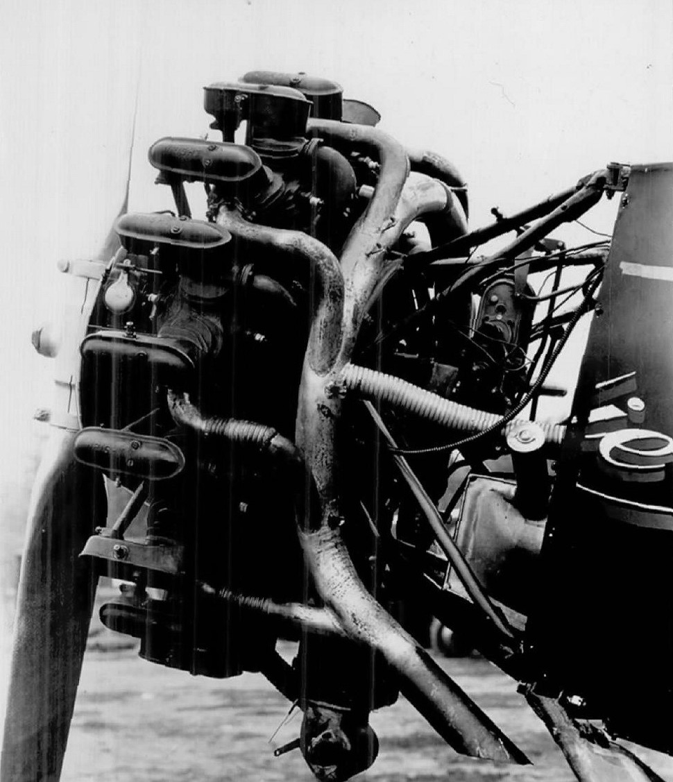 Stinson SM-1 photo from NACA Aircraft Circular No.60